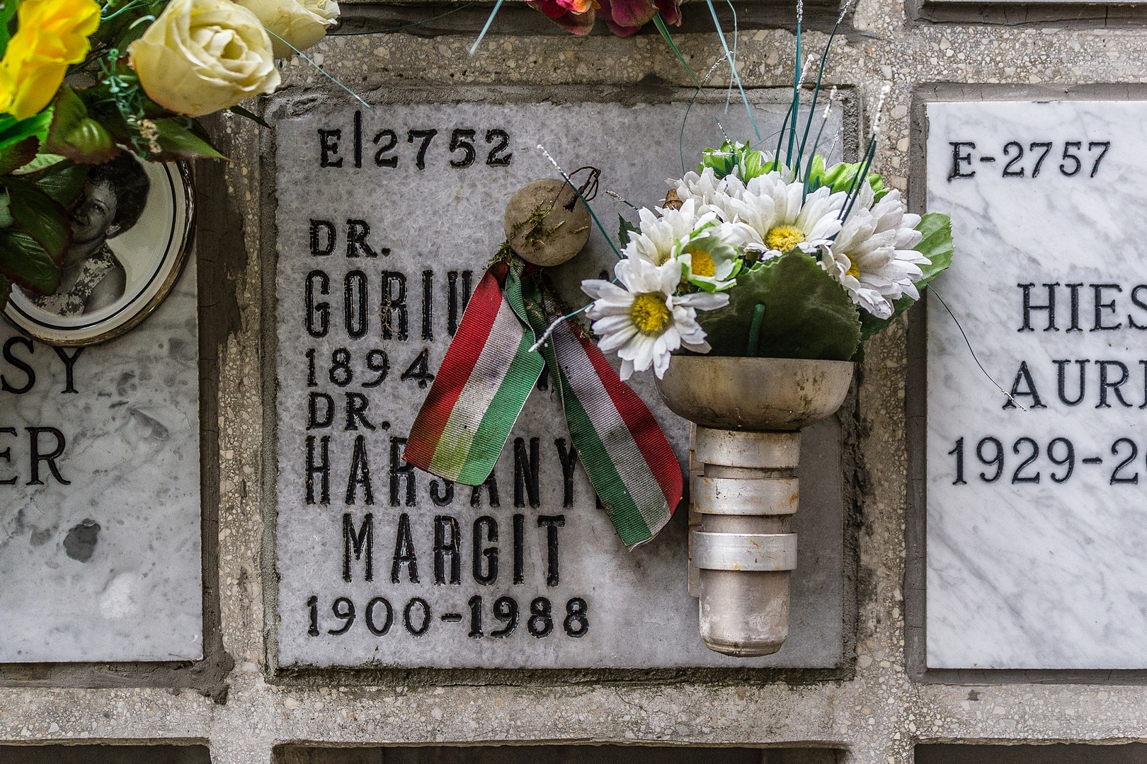 Tomb of Hungarian librarian Aliz Goriupp (1894–1979)